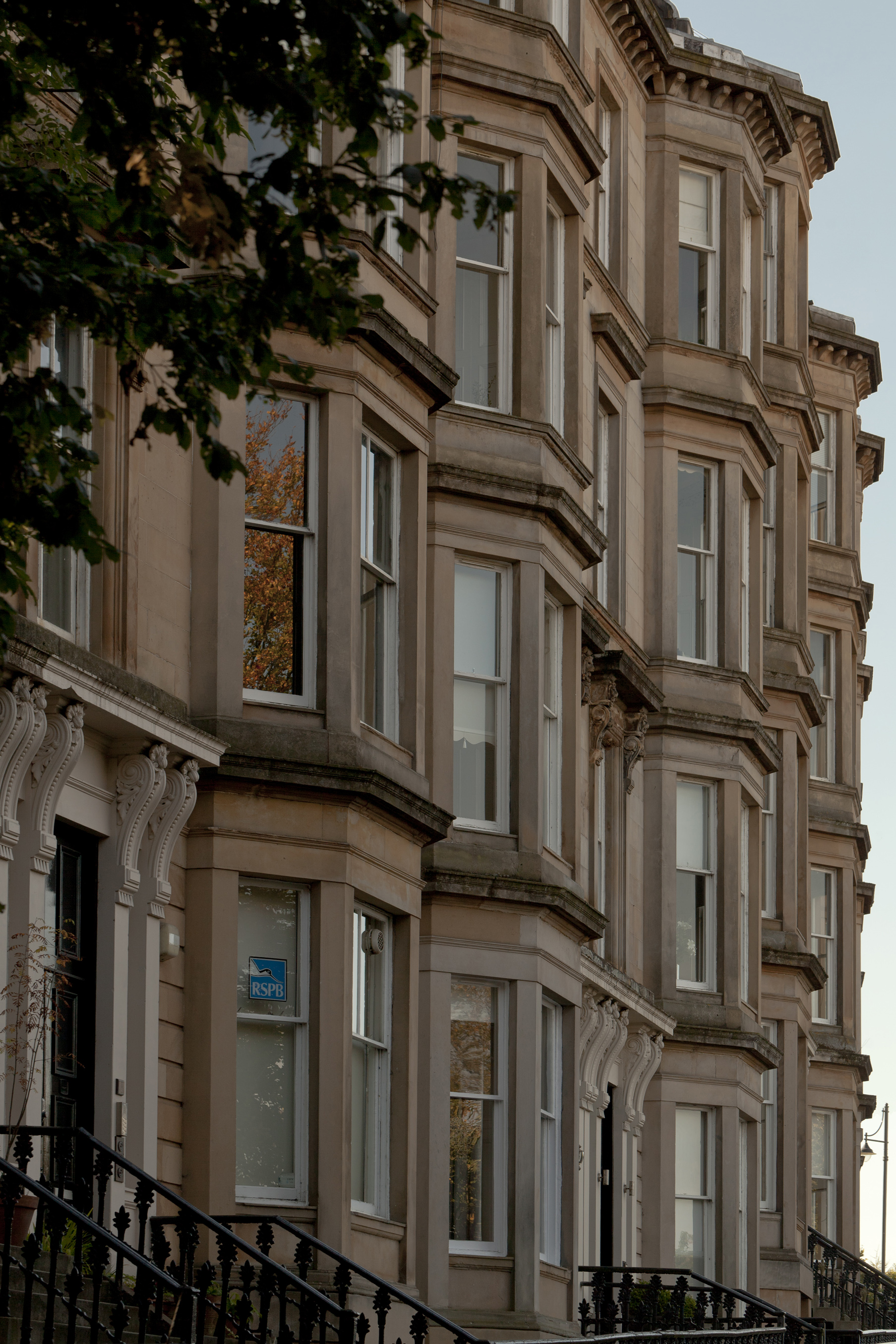 Located in Glasgow's west, Park Quadrant is part of the Park District development that accompanied the growth of the city in the nineteenth century, both in terms of wealth and of population (the inhabitants count was 77,385 in 1801 for 784,496 in 1901).